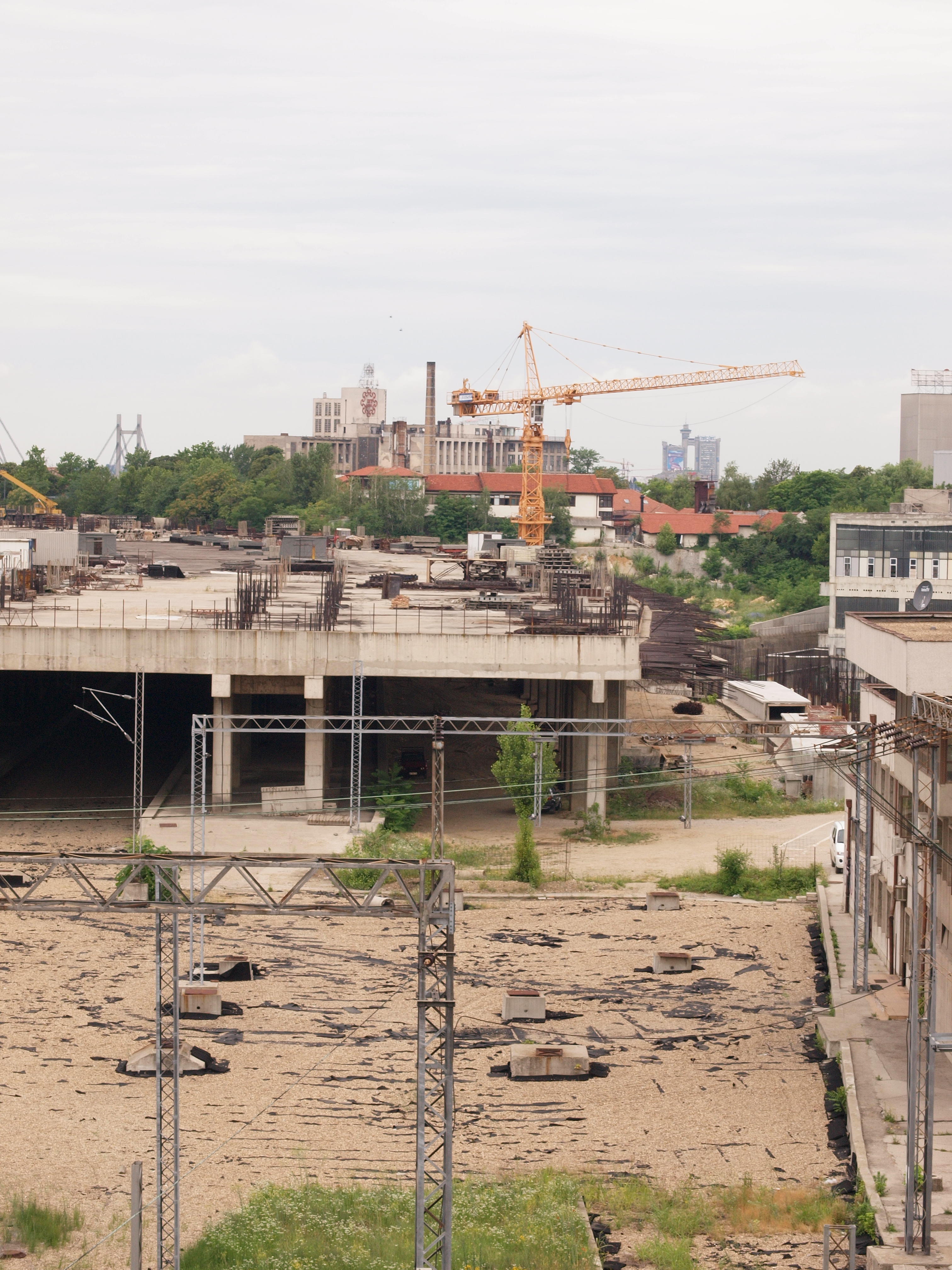 Construction Prokop June 2009